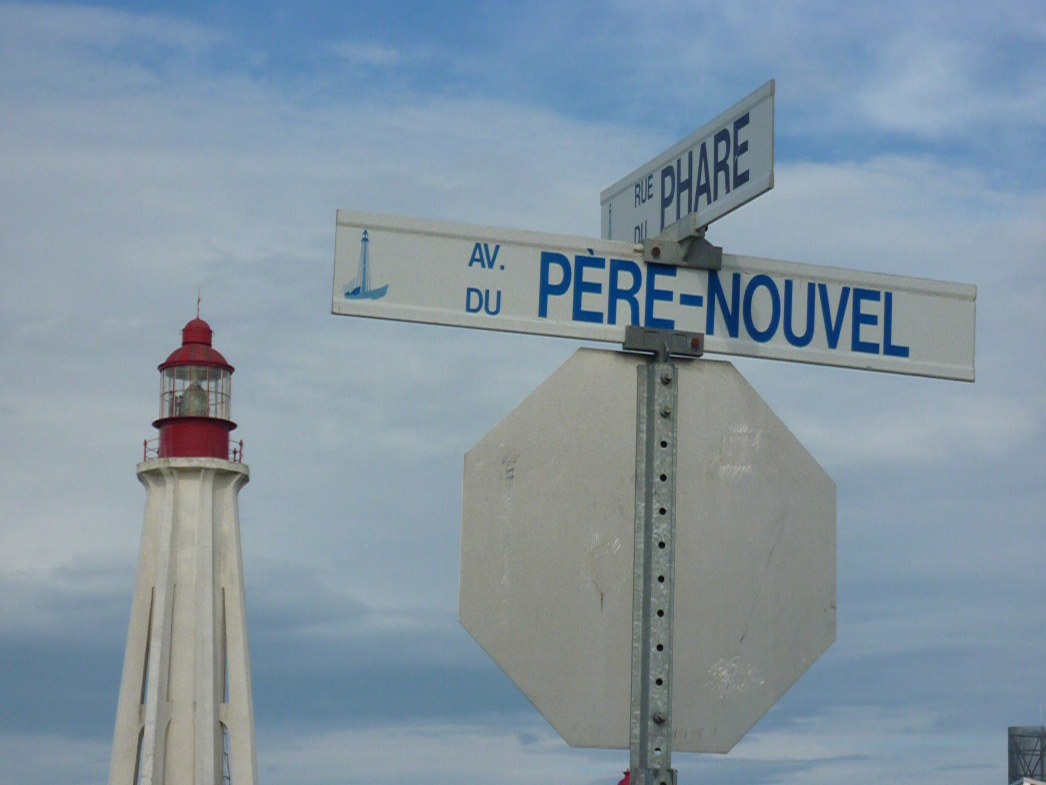 Crossroad between "Avenue du Père-Nouvel" (Father Nouvel Avenue) and "Rue du phare" (lighthouse street) at Site historique maritime de la Pointe-au-Pere, Rimouski, Quebec, Canada, September 2012. The lighthouse is in the background.